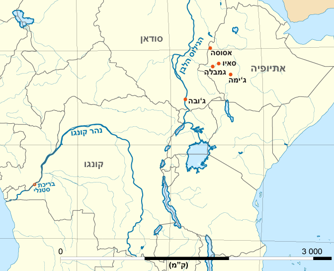 The Belgian Campaign in Ethiopia